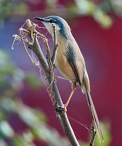 Ashy Prinia (Prinia socialis) at/ near Hodal in Faridabad District of Haryana, India.